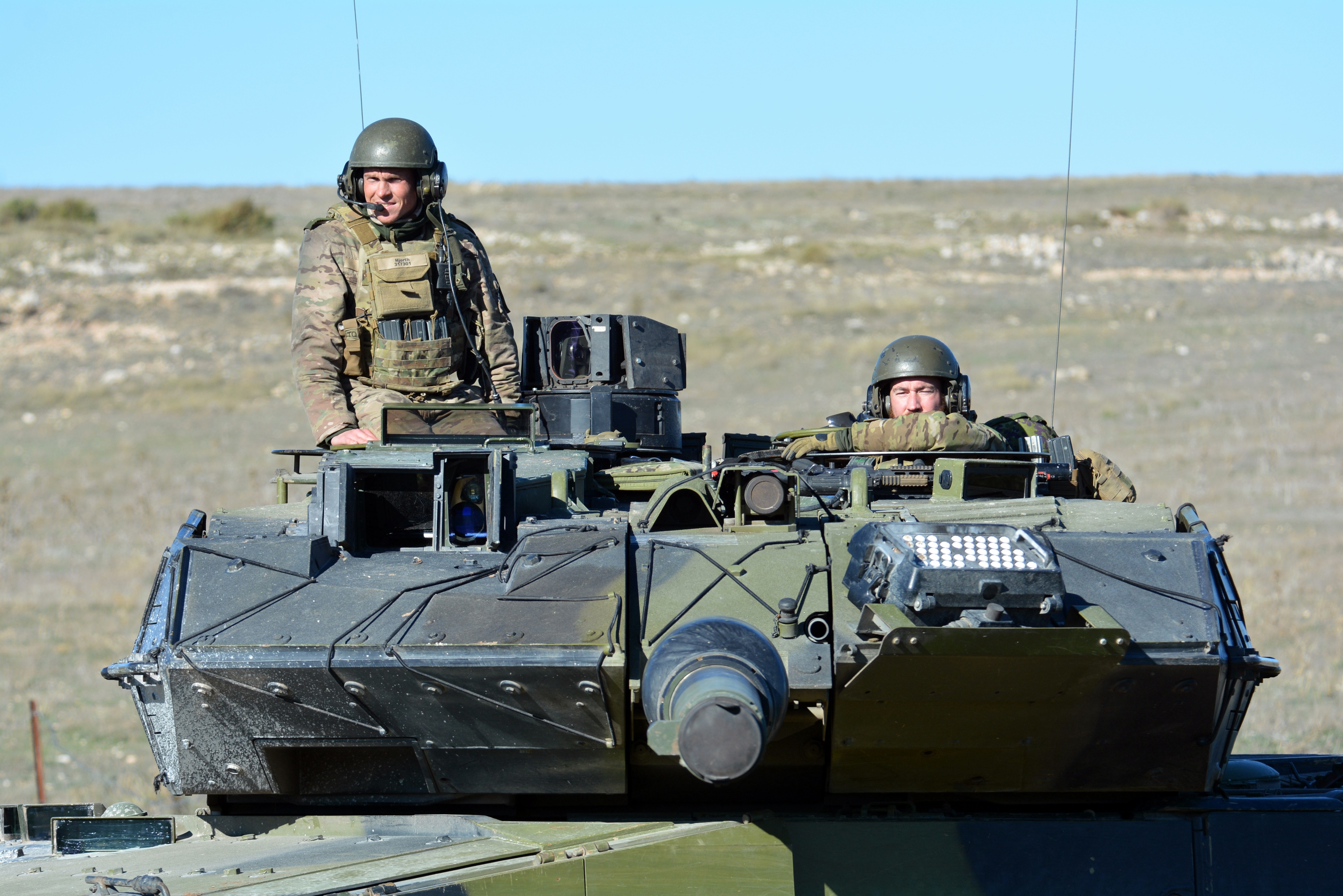 Danish soldiers in a tank observe the front line in the training area at Chinchilla, Spain on October 22, 2015 during NATO exercise Trident Juncture 15.